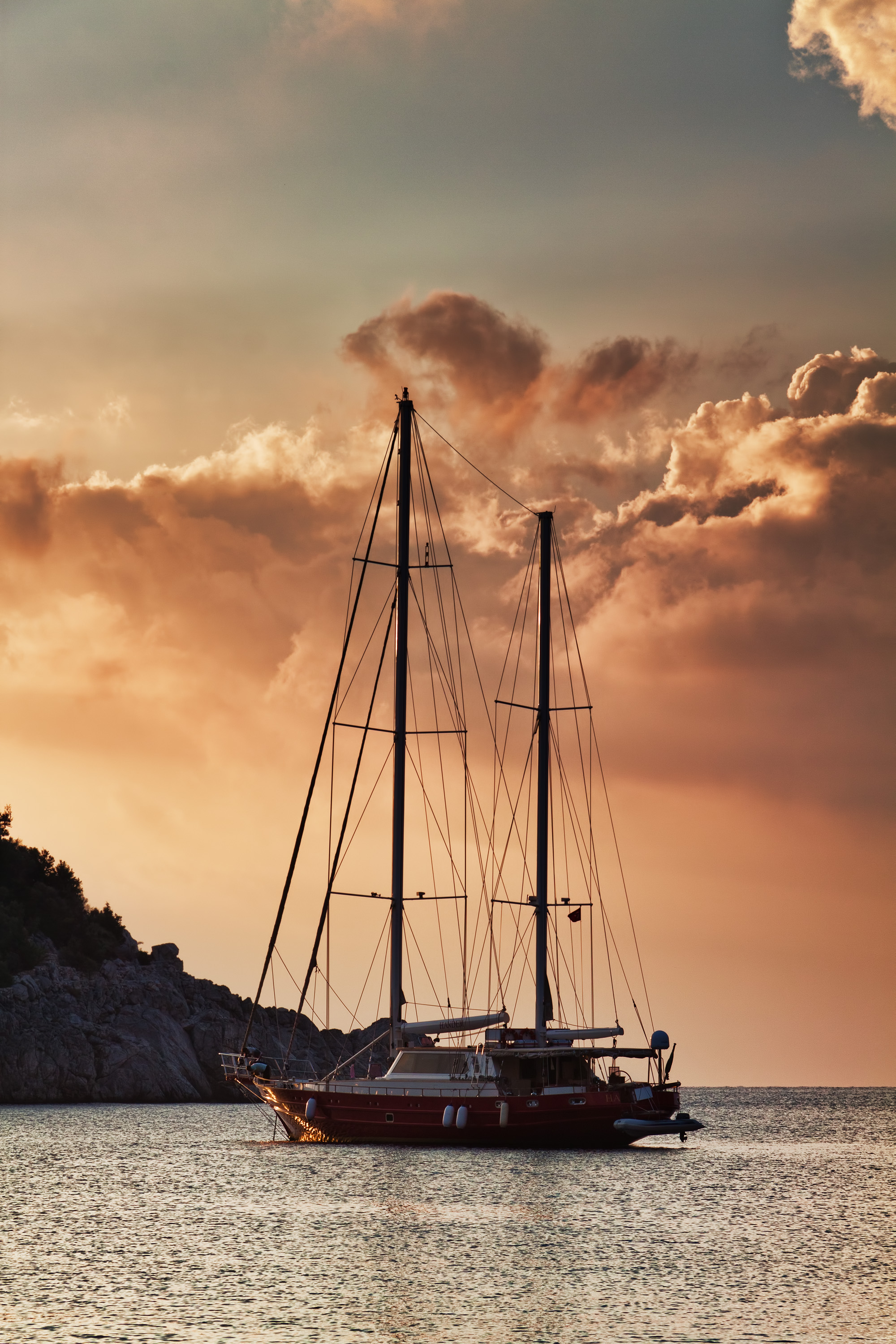 A ketch in Mediterranean sea